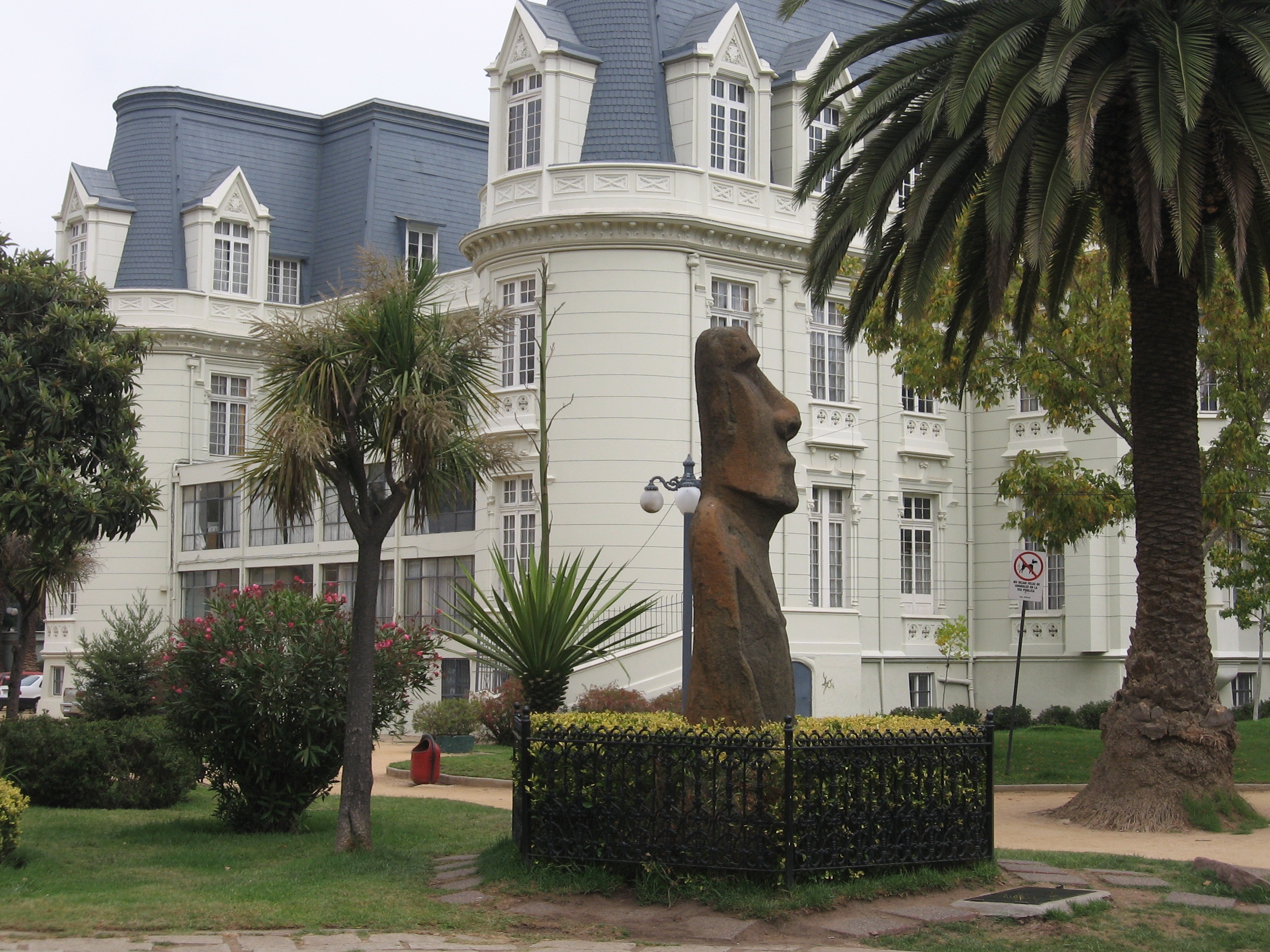 Moai outside Museum of Archaeology and History Francisco, Viña del Mar